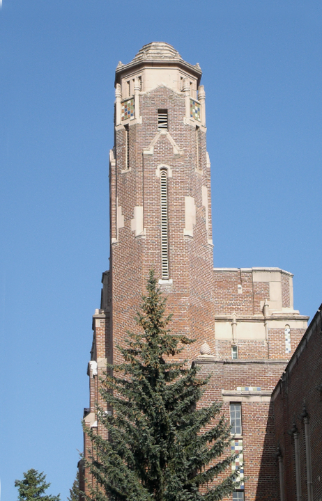 University of Idaho Moscow Idaho Memorial Gym - North face